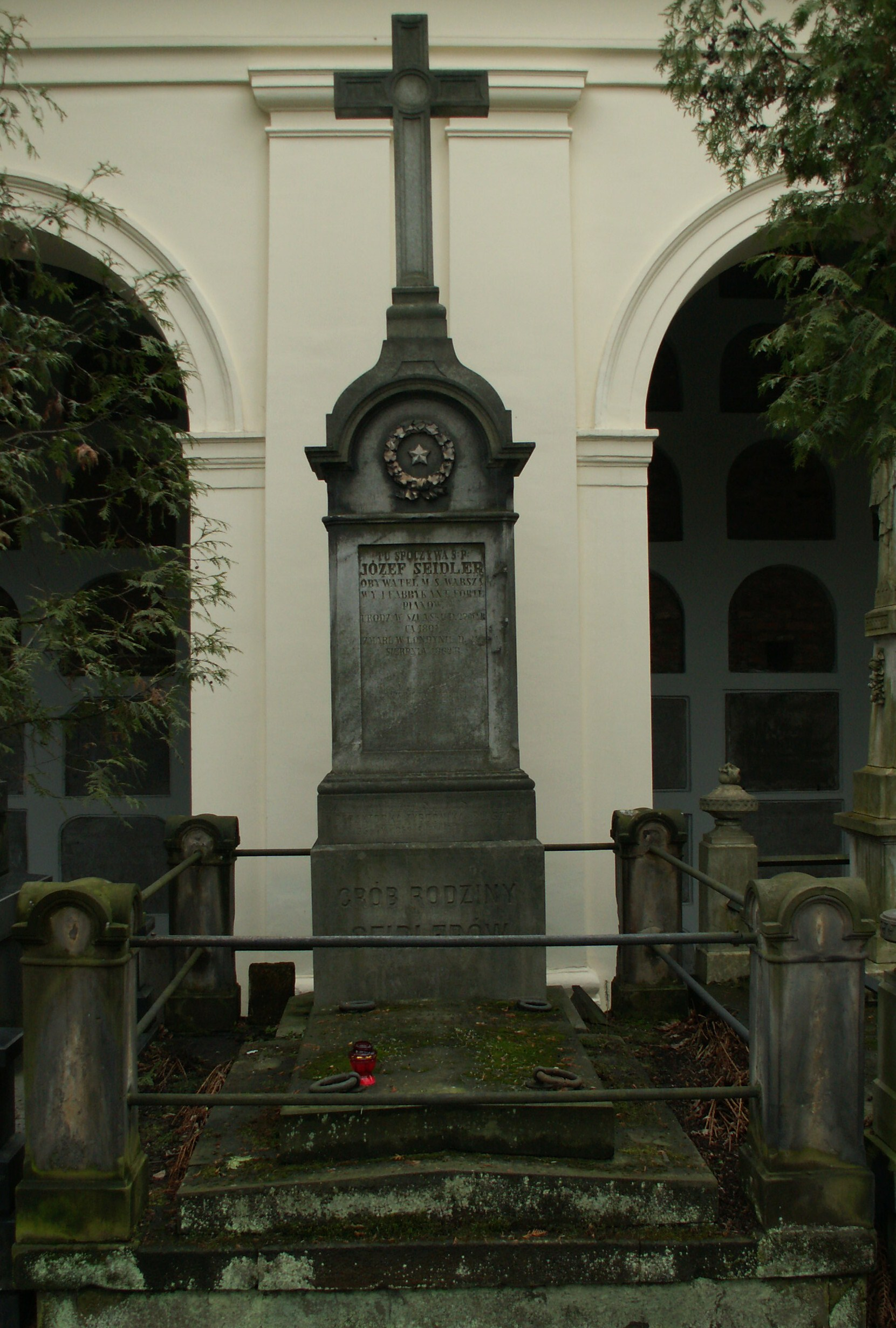 Tomb of Józefa Seidler at Warsaw's Powazki ... "Here lies the late Joseph Seidler citizen, M.S. Wrszawy and manufacturer of pianos" ...